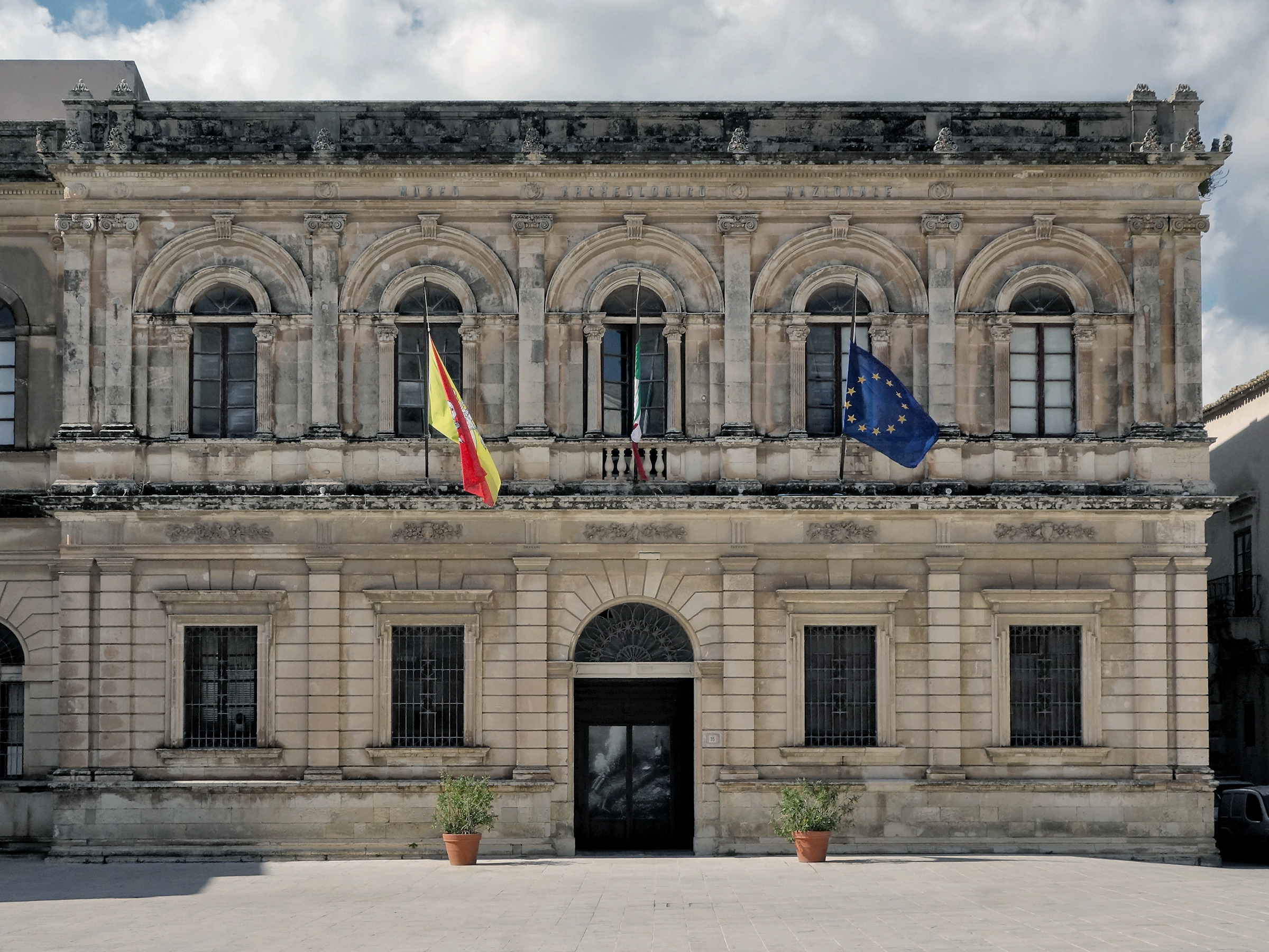 The old Museo Archeologico Nazionale (1886–1988), predecessor of the Museo Archeologico Regionale Paolo Orsi, at the Piazza Duomo, Ortigia, Syracuse, Sicily